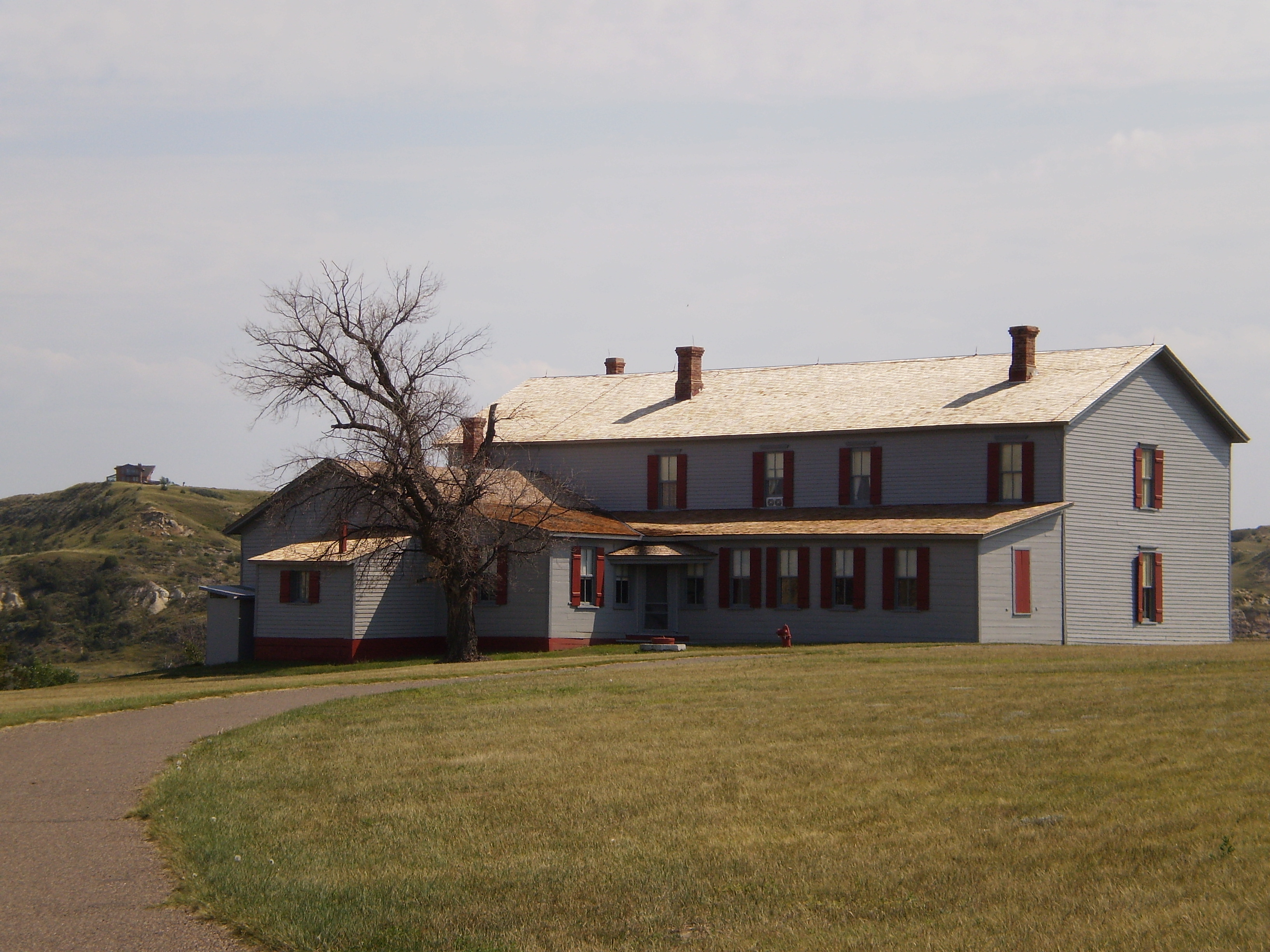 The historic Chateau de Mores in Medora, North Dakota, a house listed on the National Register of Historic Places.